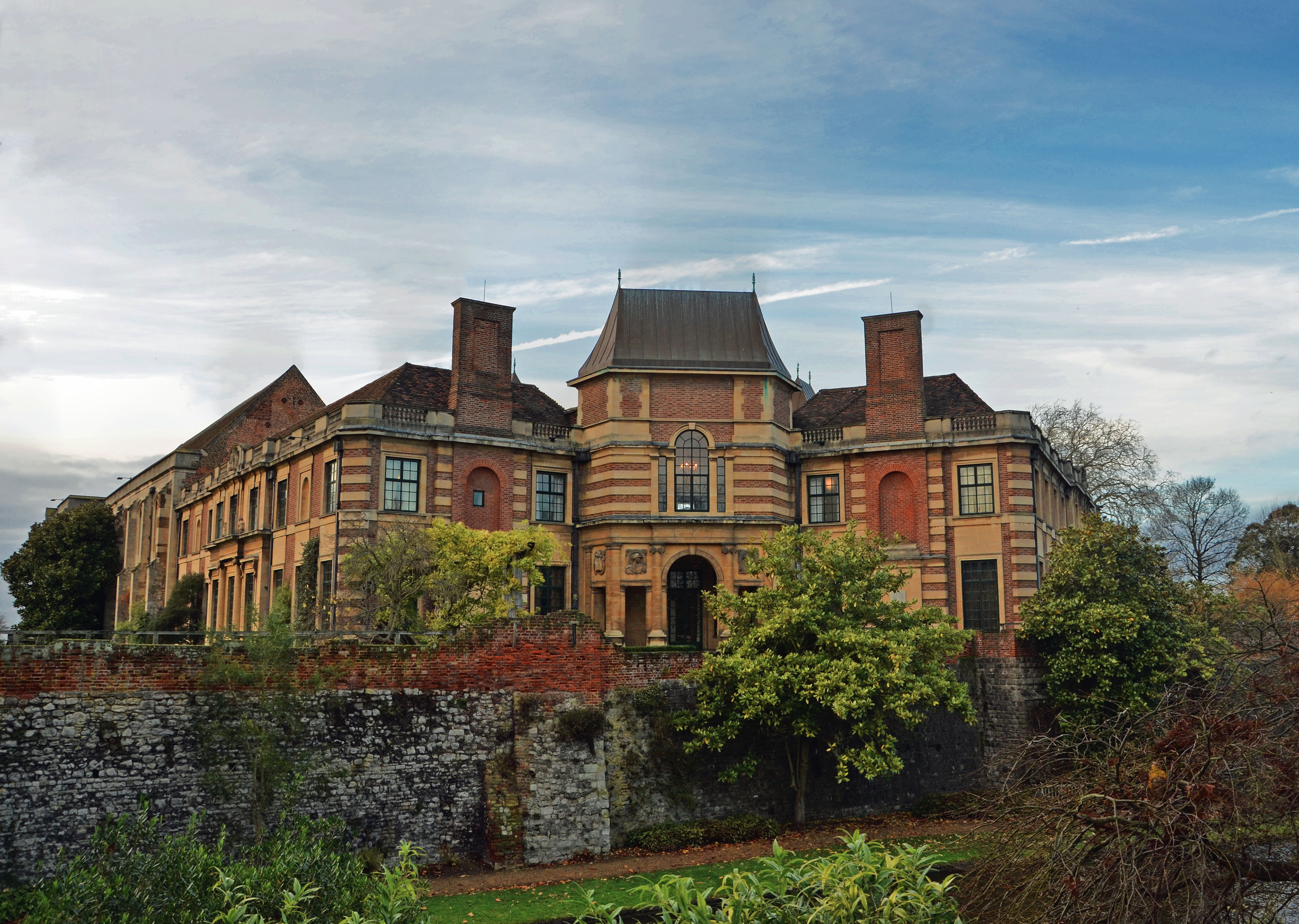 Eltham Palace. The original palace goes back to medieval times, but what you can see here is largely the restoration by Stephen and Virginia Courtauld, in the 1930s, including the gardens, from where this photo was taken. Owned these days by English Heritage.